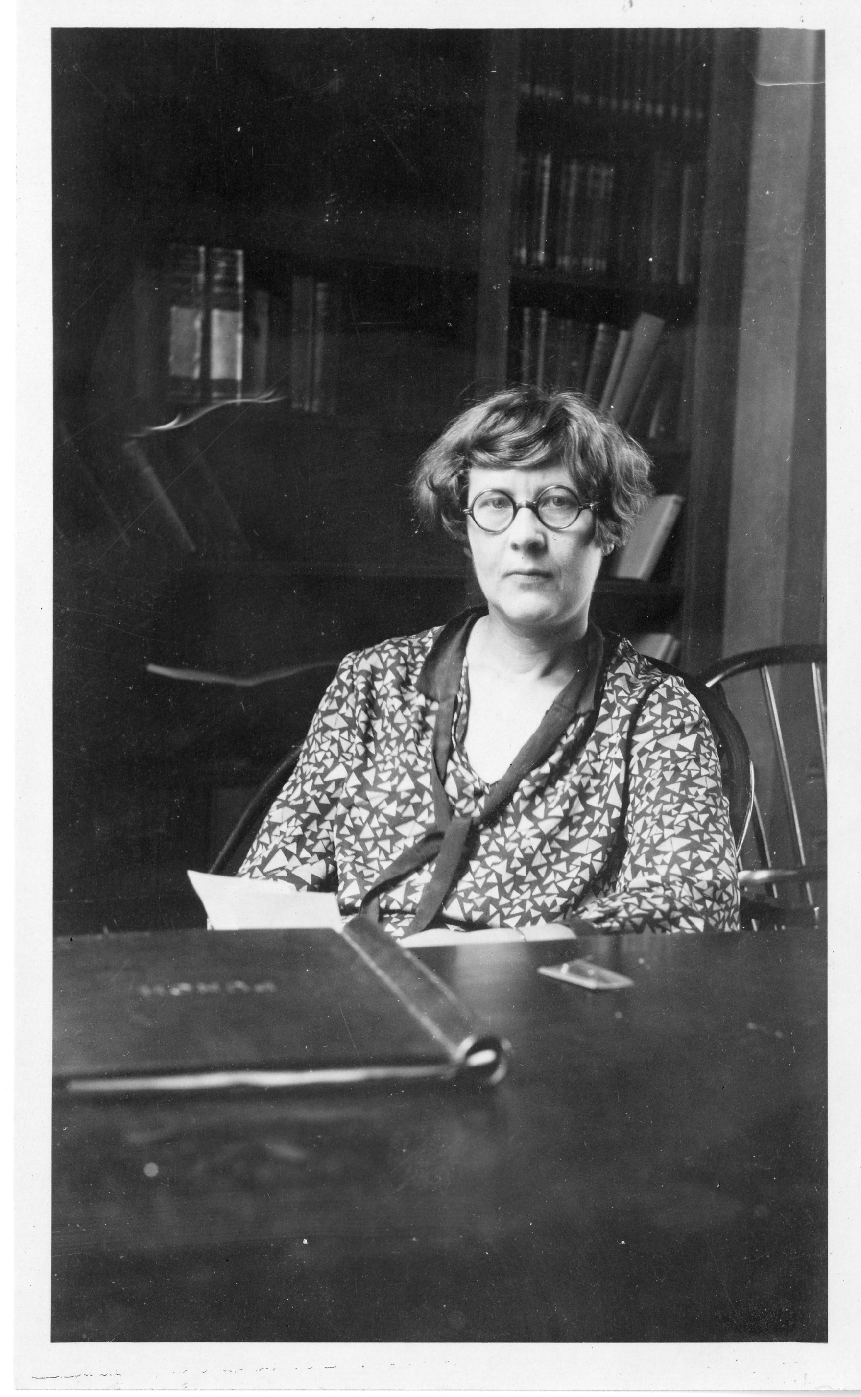 Description: Botanist Matilda Moldenhauer (b. 1890) was completing graduate work at Harvard University (Ph.D., 1920) when she met biologist Sumner Cushing Brooks. During their marriage, Matilda and Sumner conducted joint research projects and coauthored such works as The Permeability of Living Cells. From 1920-1927, she worked for the U.S. Public Health Service and, after that, was on the research staff of the University of California. During the 1930s, she discovered an antidote for carbon monoxide and cyanide poisoning. Creator/Photographer: Julian Scott Medium: Black and white photographic print Date: Prior to 1927 Persistent URL: [1] Repository: Smithsonian Institution Archives Collection: Science Service Records, 1902-1965 (Record Unit 7091) - Science Service, now the Society for Science & the Public, was a news organization founded in 1921 to promote the dissemination of scientific and technical information. Although initially intended as a news service, Science Service produced an extensive array of news features, radio programs, motion pictures, phonograph records, and demonstration kits and it also engaged in various educational, translation, and research activities. Accession number: SIA2007-0392